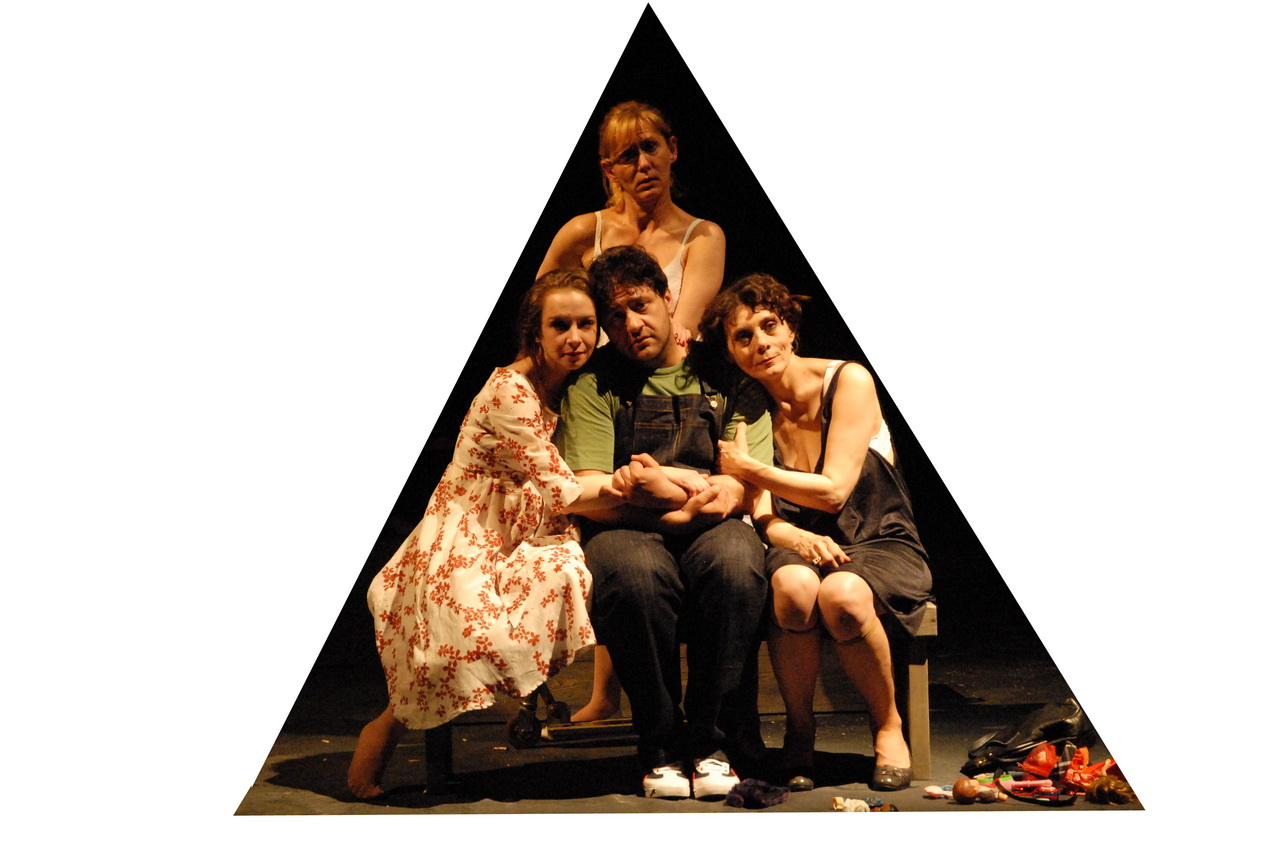 "Barbelo, on Dogs and Children" written by Biljana Srbljanović, directed by Predrag Štrbac; Drama of the SNT, Novi Sad, 2009/10; Marija Medenica, Milan Kovačević, Aleksandra Pleskonjić - sitting, Olivera Stamenković Srpski (latinica): "Barbelo, o psima i deci" Biljane Srbljanović u režiji Predraga Štrpca; Drama SNP-a, Novi Sad, 2009/10; Marija Medenica, Milan Kovačević, Aleksandra Pleskonjić - sede, Olivera Stamenković Српски (ћирилица): "Барбело, о псима и деци" Биљане Србљановић у режији Предрага Штрпца; Драма СНП-а, Нови Сад, 2009/10; Марија Меденица, Милан Ковачевић, Александра Плескоњић - седе, Оливера Стаменковић